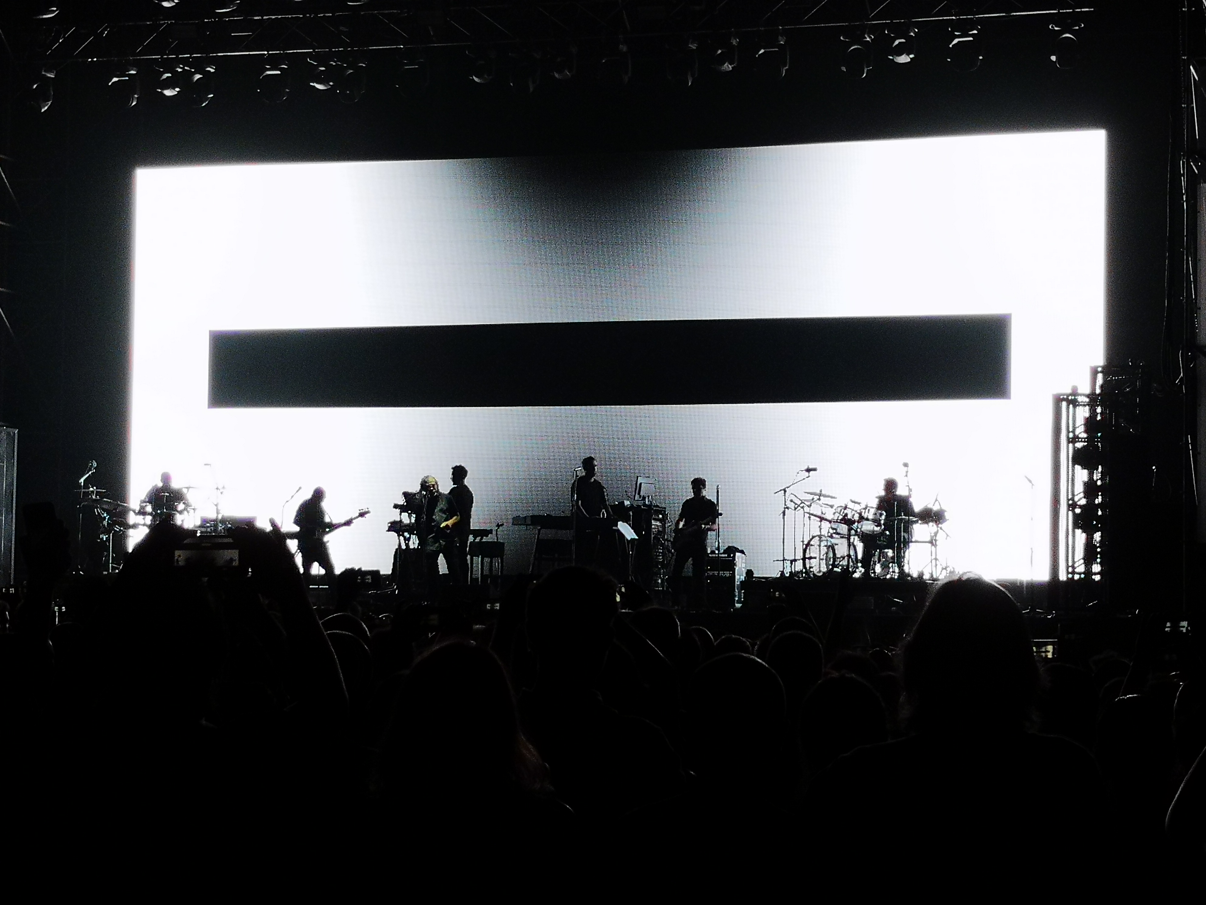 Massive Attack live at Piazza del Sordello in Mantova on July 15th, 2018